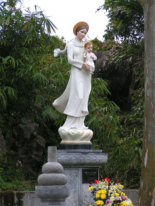 Phat Diem Cathedral, Ninh Binh Province, Vietnam. Our Lady dressed in ao dai.